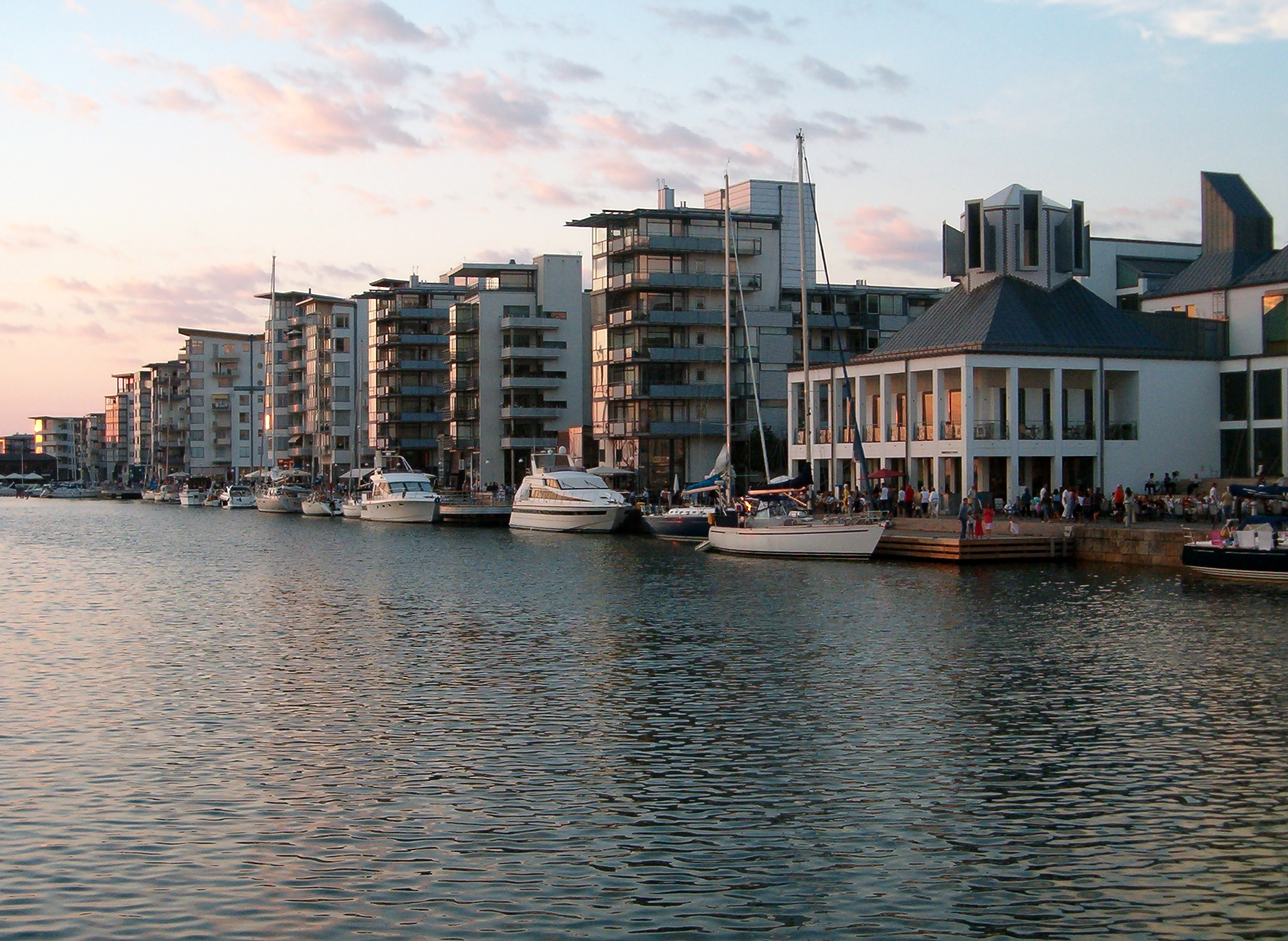 Norra hamnen in Helsingborg, Sweden at sunset. Untilted version of the original photo.